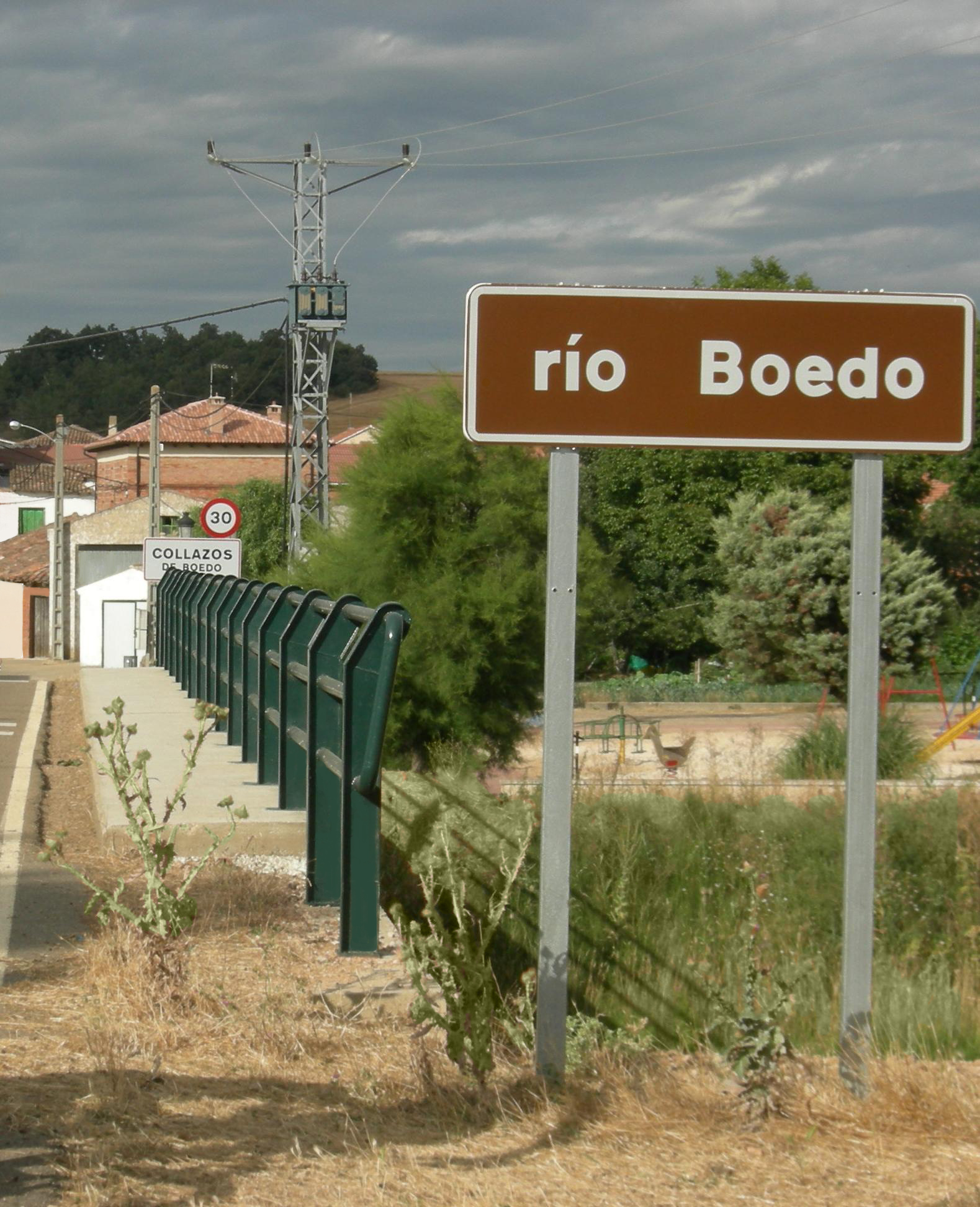 Boedo river